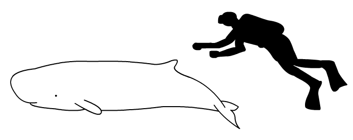 Size comparison of an average human and a